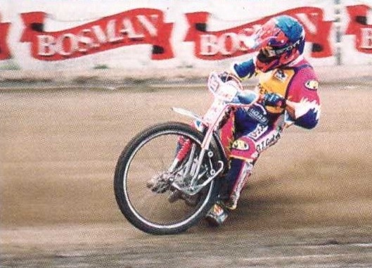 Tomasz Cieslewicz in "Stal" - season 1999.